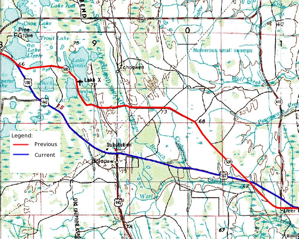 Background image composite image of USGS Topography maps dated July 1, 1972. USGS images are public domain. Legend, current and former alignments of U.S. 192 in Osceola County added by Gerald McMillen. Public Domain.